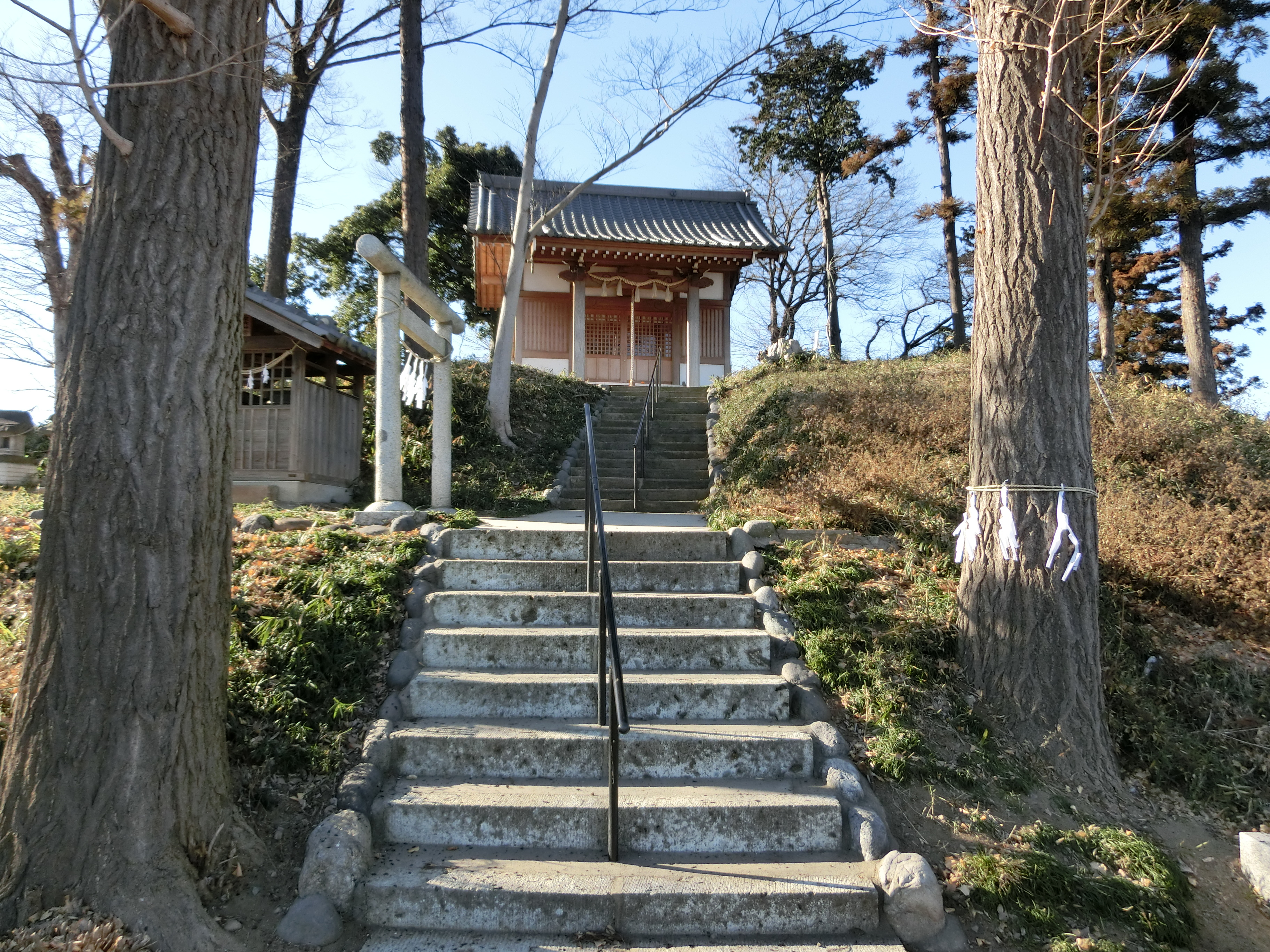 Atago Jinja (Fusaiji, Fukaya)